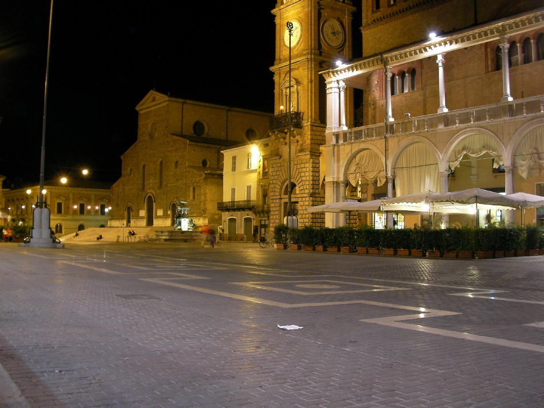 Faenza: Piazza del Popolo at night